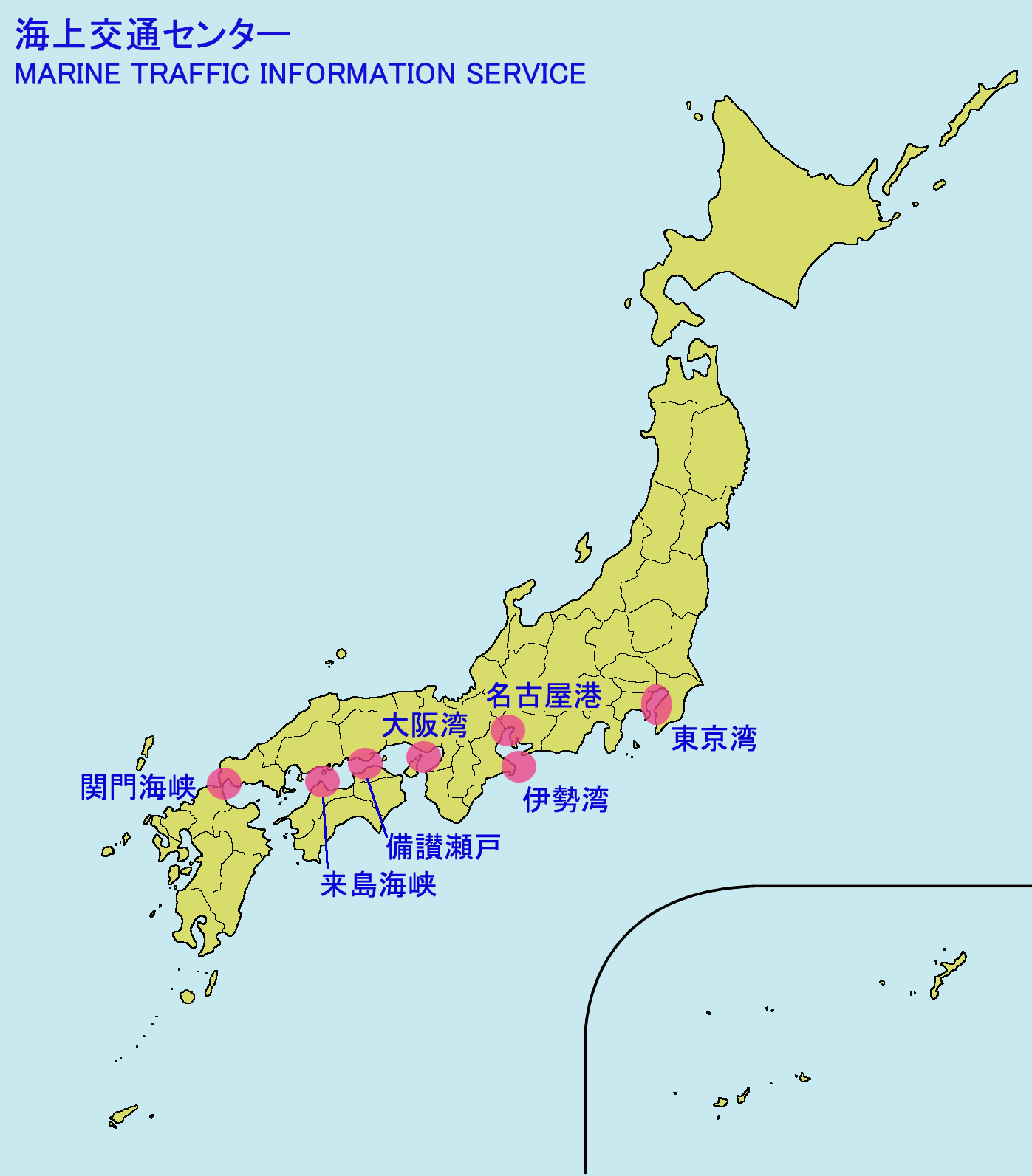 Japan Coast Guard MARINE TRAFFIC INFORMATION SERVICE